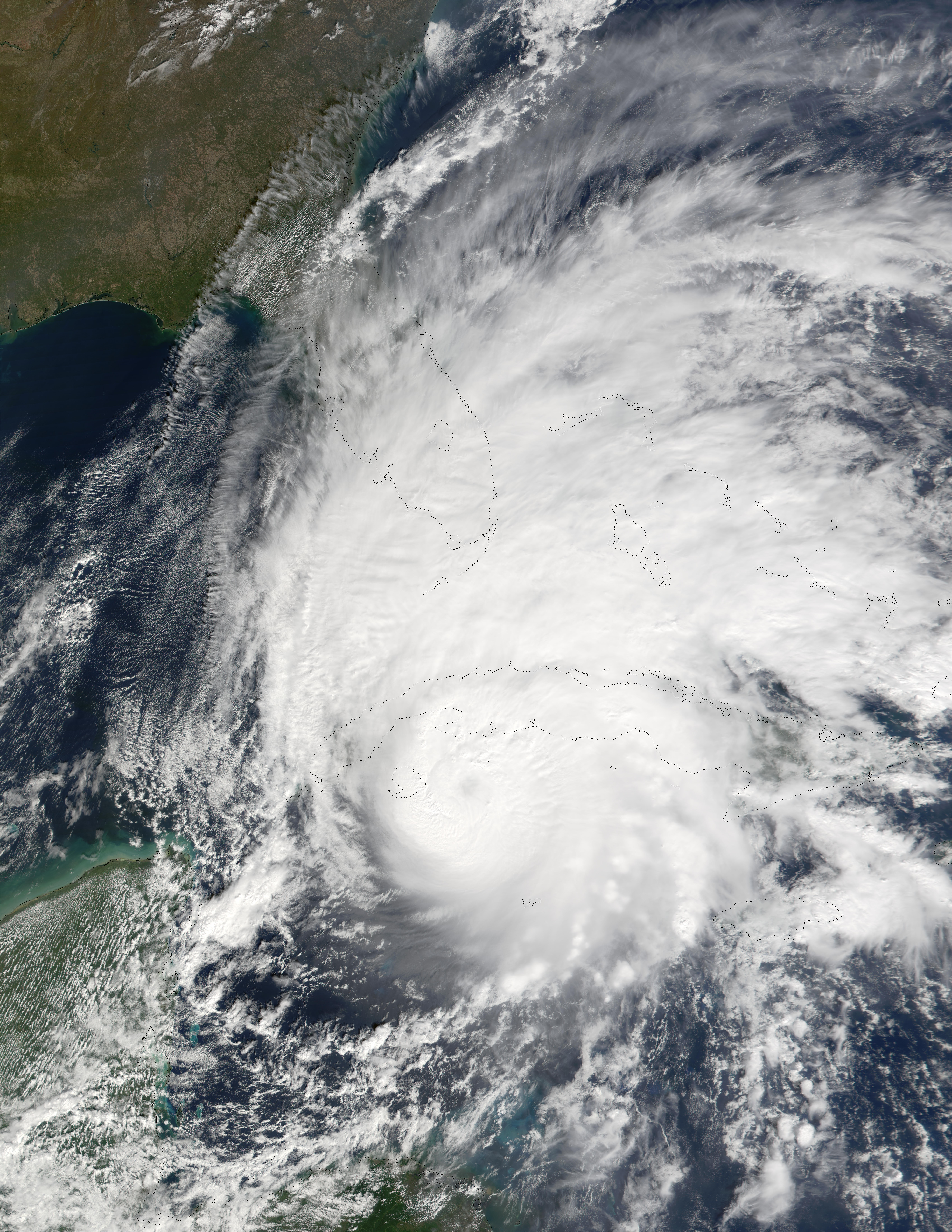 Hurricane Michelle made landfall in Cuba on Sunday, November 4, with sustained winds of 135 miles per hour. Cuban media reported that at least 5 people died in the storm and more than 600,000 people were evacuated, primarily in the Matanzas province near Pinar del Rio. Cuban officials report severe damages to property and crops in the wake of the storm. This true-color image of Hurricane Michelle was acquired on November 4 around 10:30 a.m. local time, just as the eye of the storm was approaching Cuba’s southwestern coast. The scene was captured by the Moderate-resolution Imaging Spectroradiometer (MODIS), flying aboard NASA’s Terra satellite. The Sea-viewing Wide Field-of-view Sensor (SeaWiFS) also acquired a pair of scenes over the Gulf of Batabano, where the storm churned up a lot of sediment. According to the National Weather Service, at 4 p.m. on November 5, Hurricane Michelle was located about 145 miles (230 km) east-northeast of Nassau in the Bahamas. The storm was moving away from the Bahamas as was slowly weakening. At that time, its winds were about 75 miles per hour.